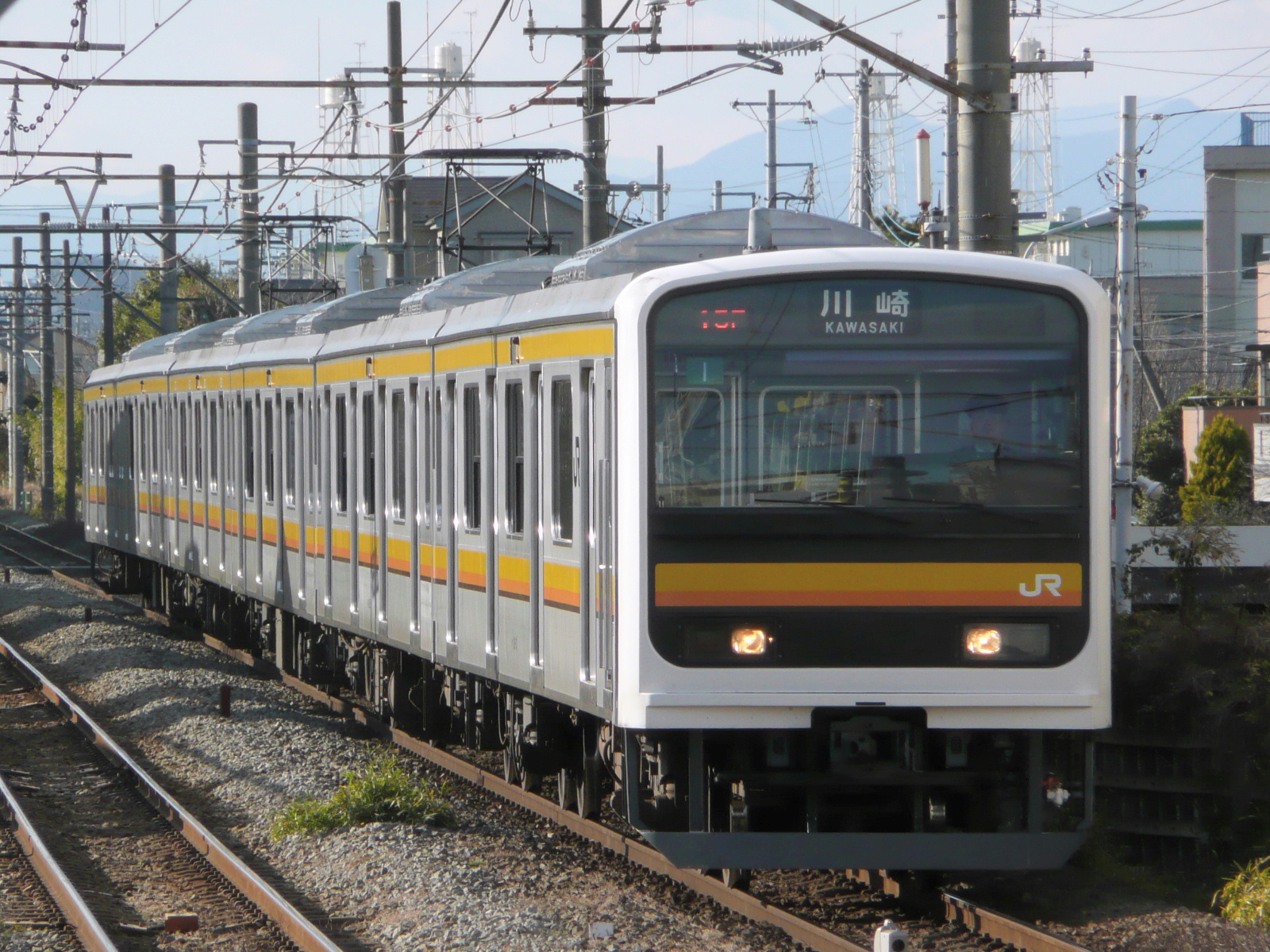 JR East 209 series EMU set 1 approaching Nakanoshima Station on the Nanbu Line